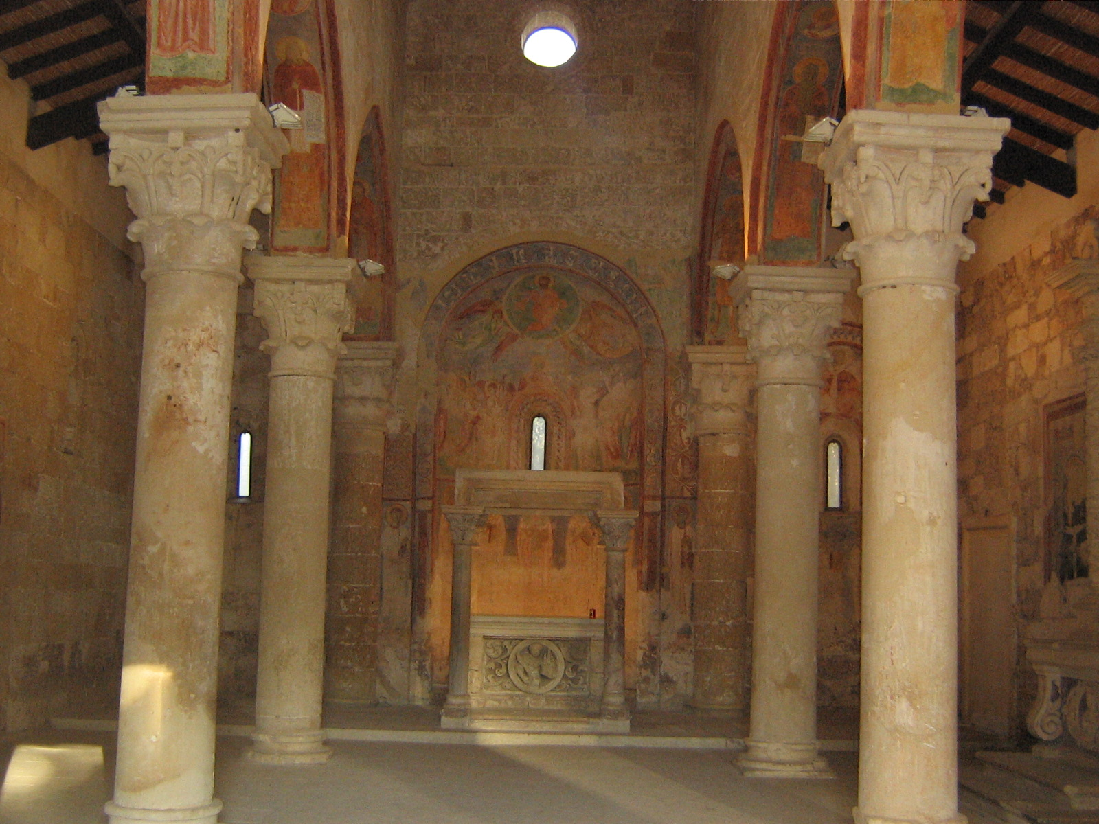 Abbey of Santa Maria a Cerrate (Lecce, Italy).